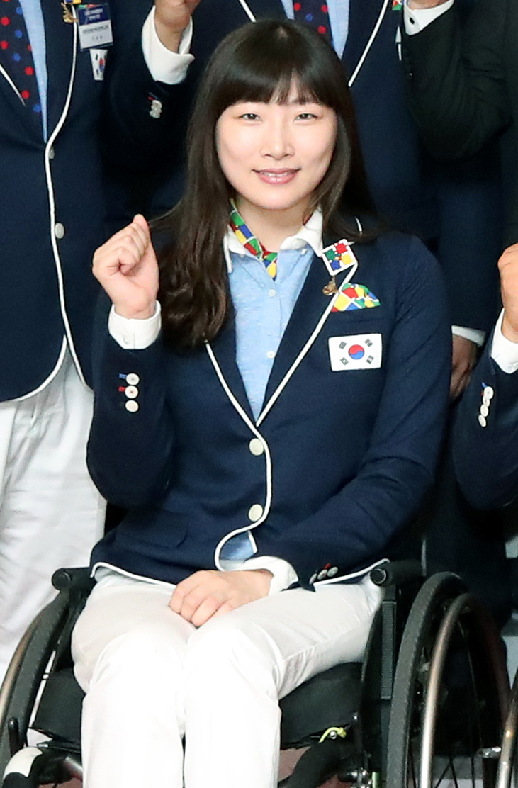 Seo Su-yeon